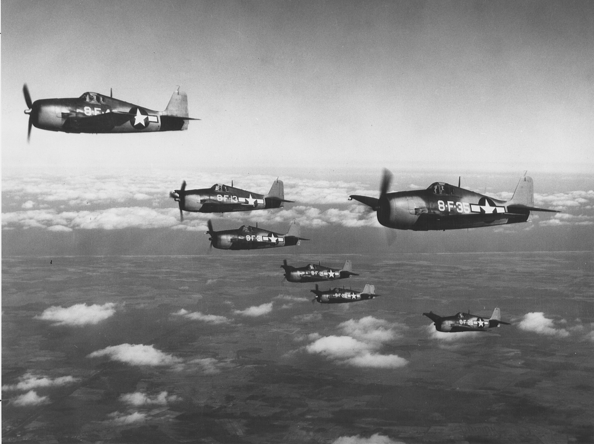 Eight U.S. Navy Grumman F6F-3 Hellcats of Fighting Squadron 8 (VF-8) in flight, in 1943. The photo is dated 15 March 1943, but the blue borders around the US national insignia were ordered in September 1943. VF-8 was later assigned to Carrier Air Group 8 (CVG-8) aboard the aircraft carrier USS Bunker Hill (CV-17) from March to October 1943.